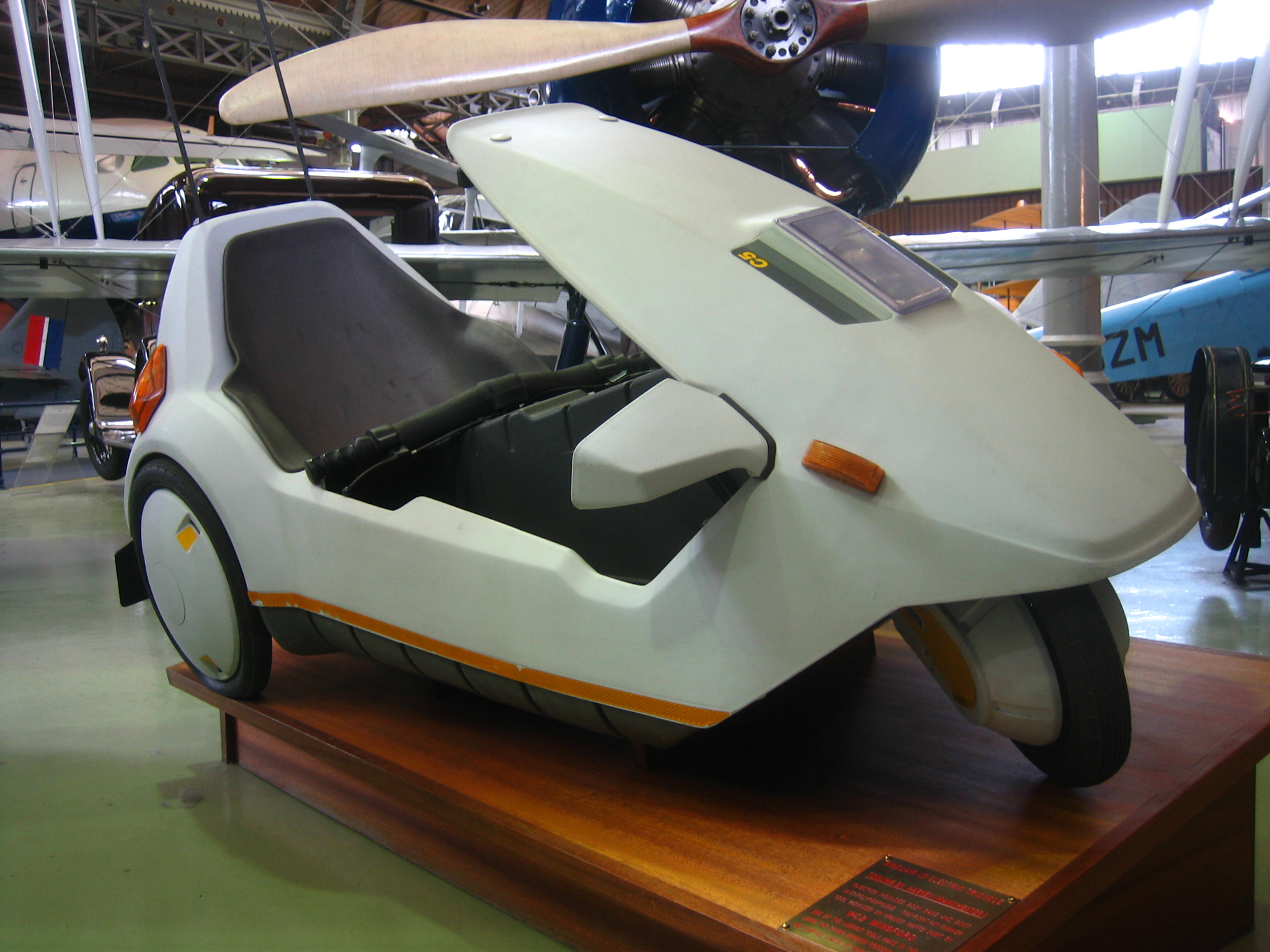 A Sinclair C5 personal trasportation device on display at the Manchester Museum of Science and Industry.